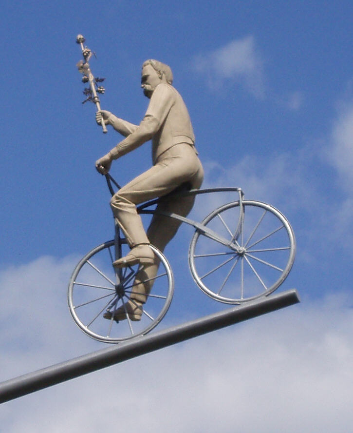 Peter Lenk, Hölderlin im Kreisverkehr, Detail